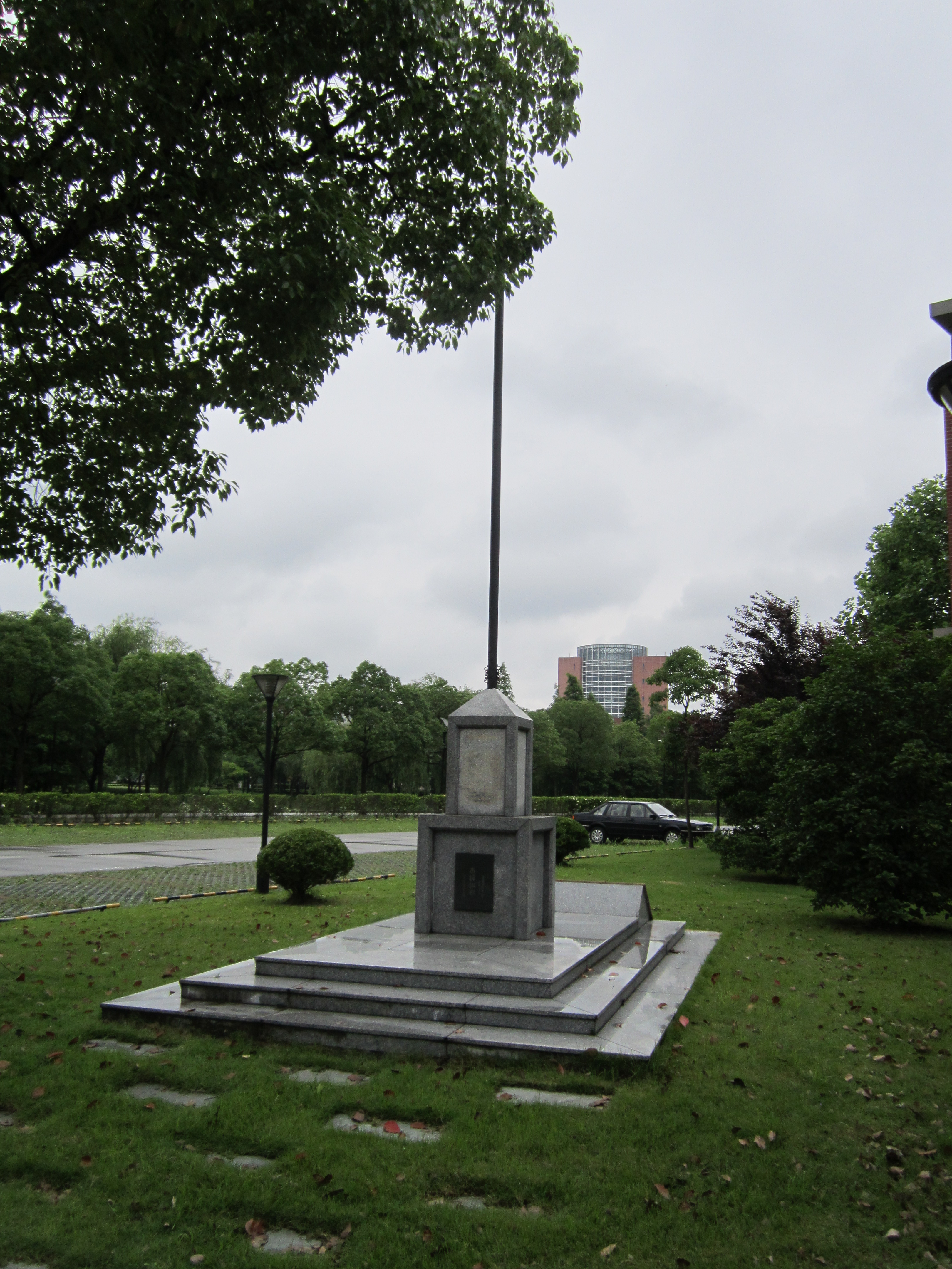 Marconi memorial in Shanghai Jiao Tong University Minhang Campus, Shanghai, China